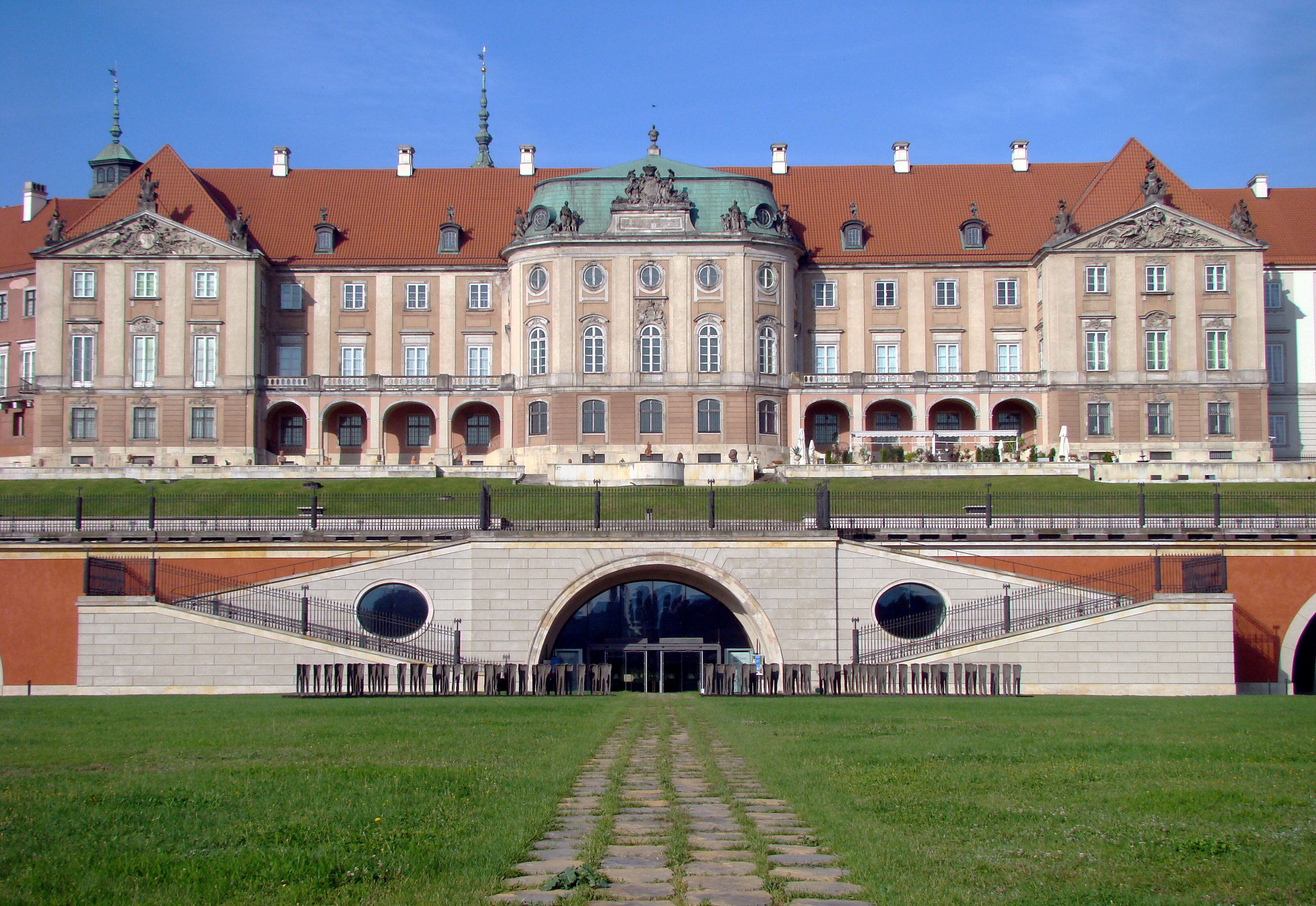 Royal Castle & Kubicki Arcades